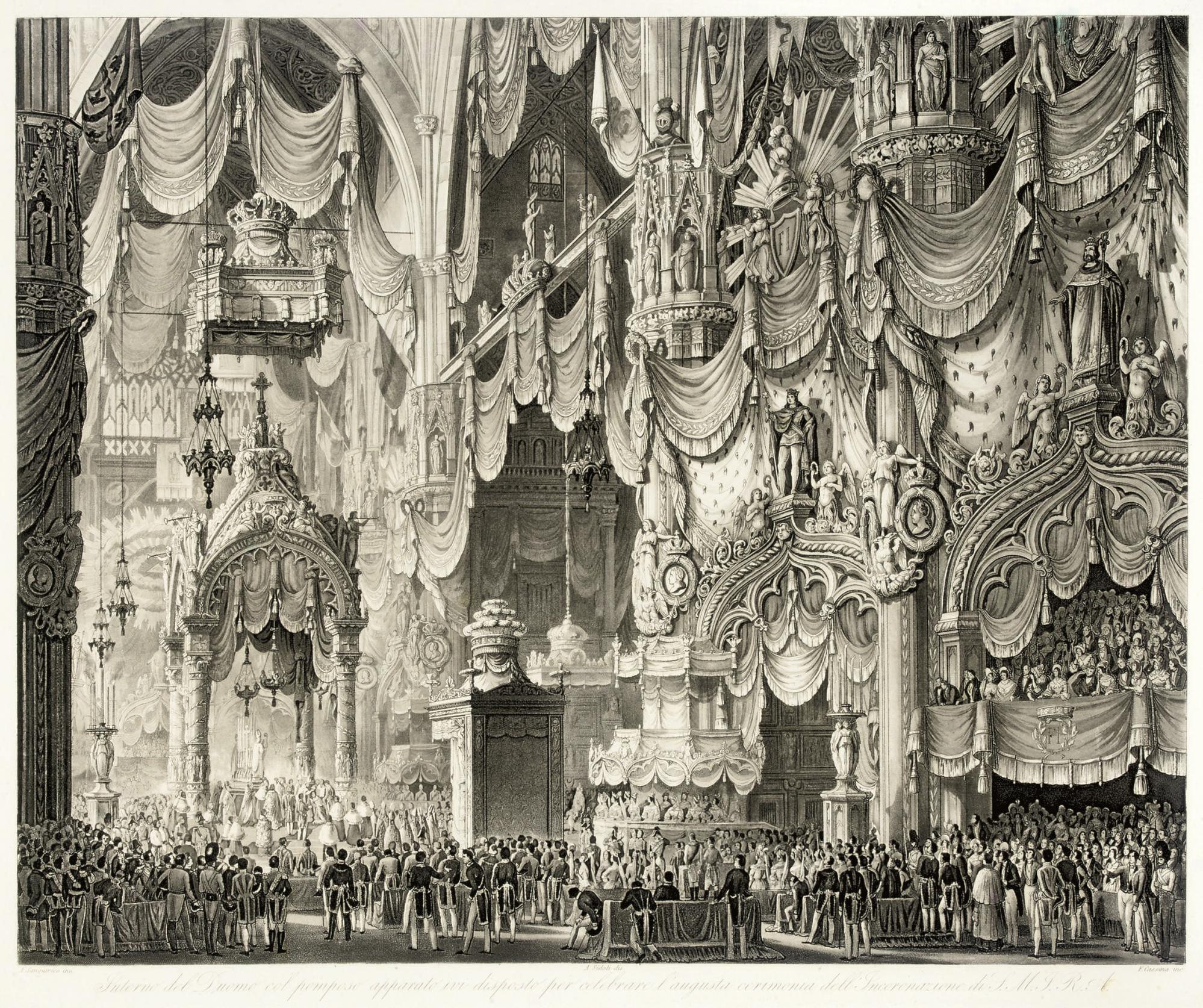 Interior of Milan's cathedral during the coronation of Ferdinand Ist of Austria